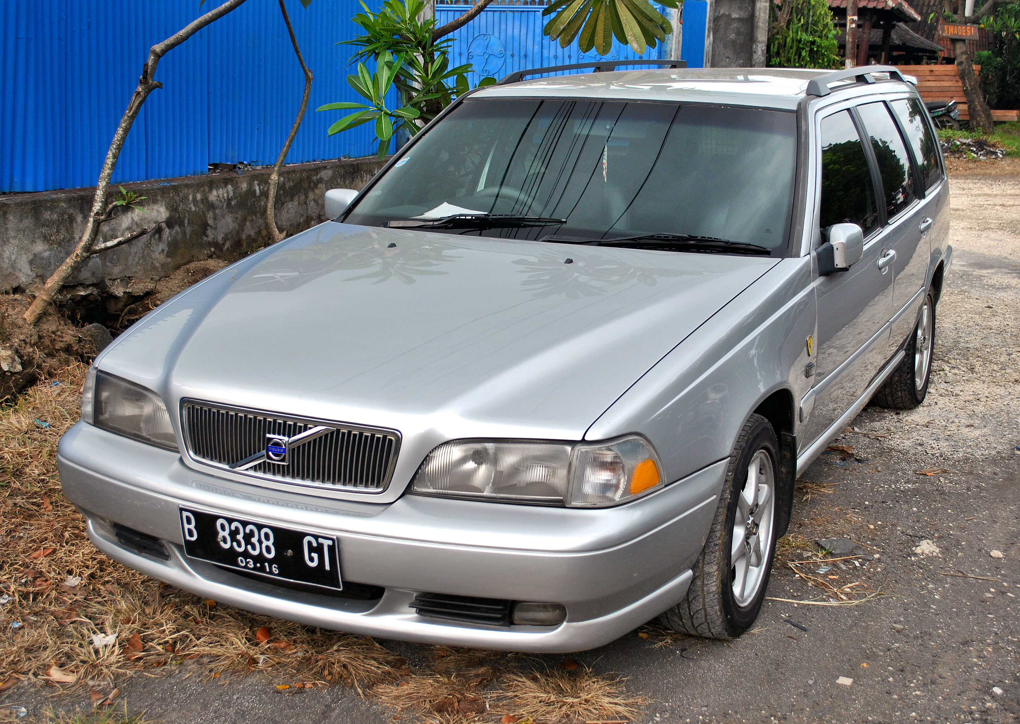 Front view of Mark I Volvo V70 estate spotted around Ketewel, Gianyar, Bali, Indonesia. Such estate car is not popular in Indonesia. Jakarta registration.